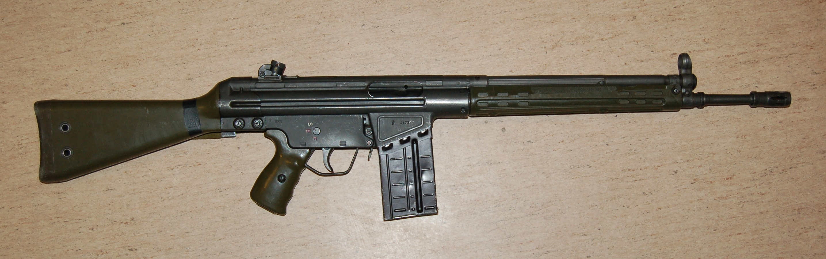 The Norwegian produced AG-3 7.62 mm assault rifle, right hand view.